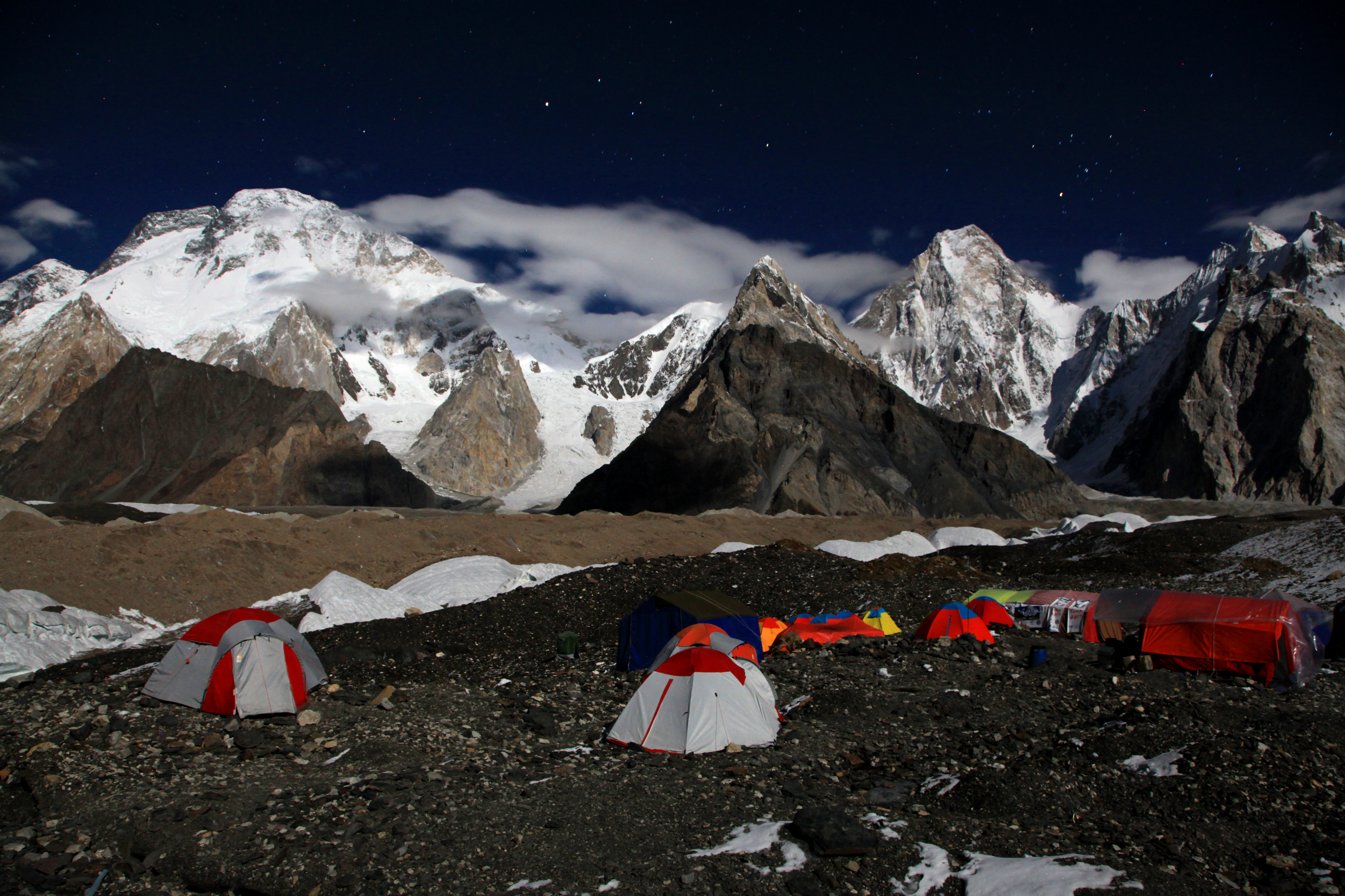 Concordia, Broad Peak and Gasherbrum IV